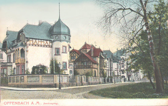 Isenburgring in Offenbach